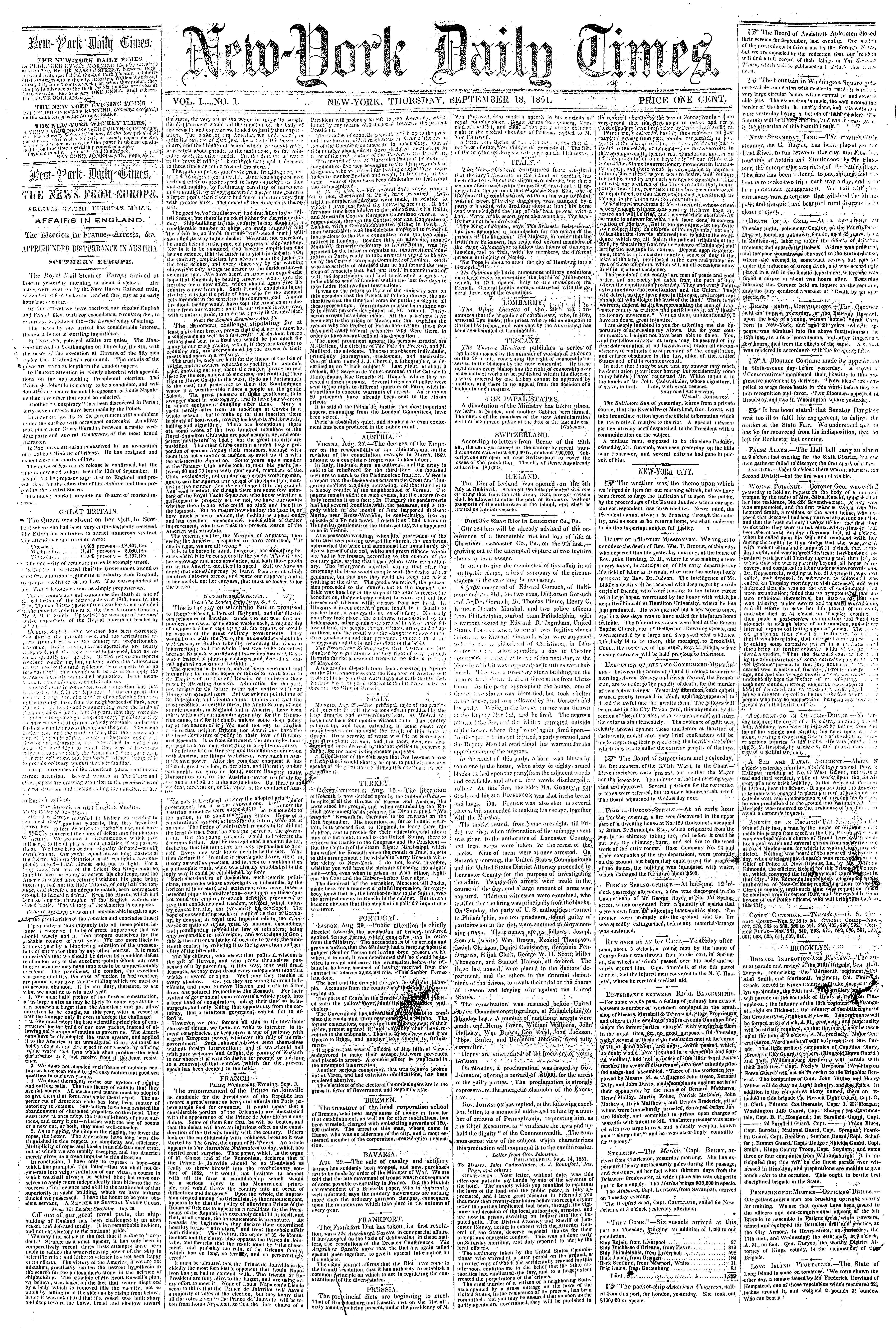 The first ever New York Times front page.